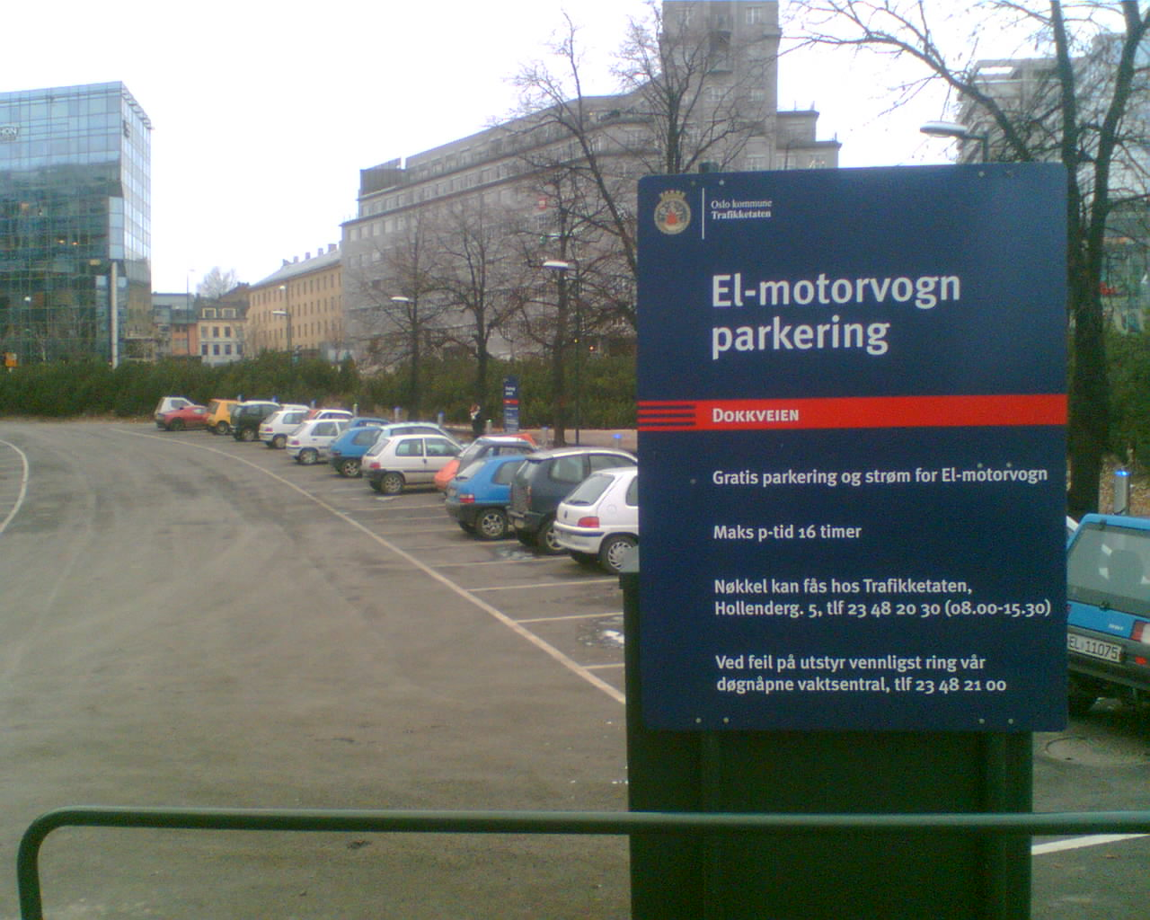 The worlds largest parking lot for electric cars